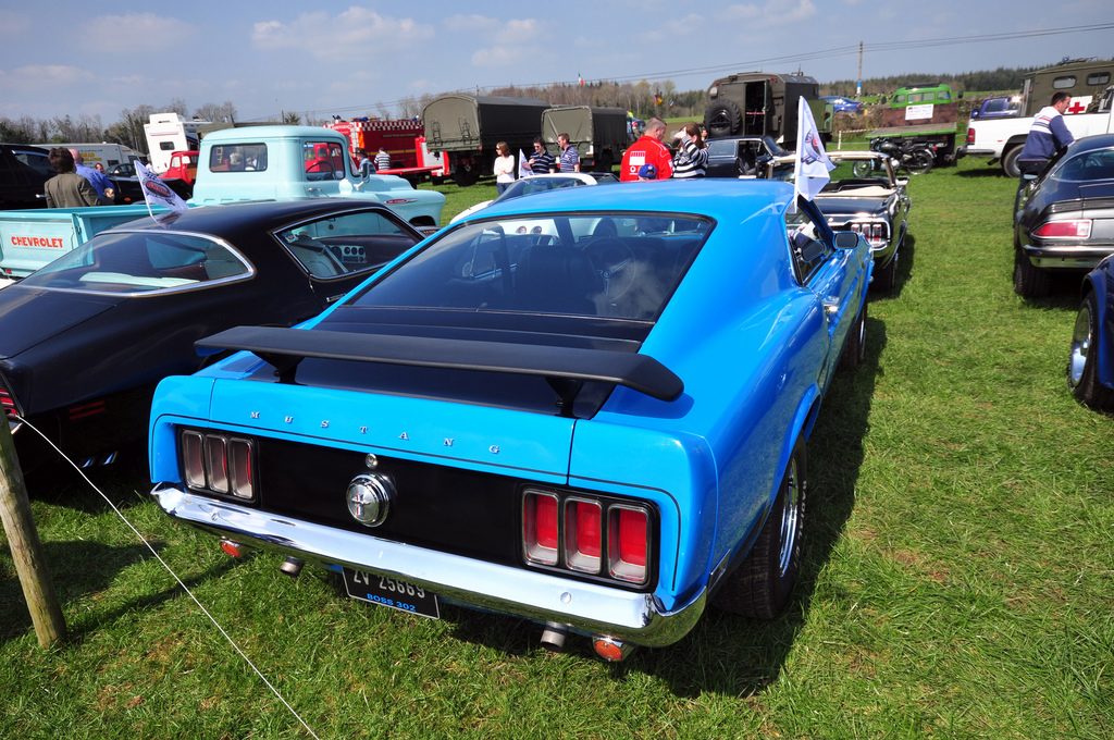 Ford Mustang Boss 302